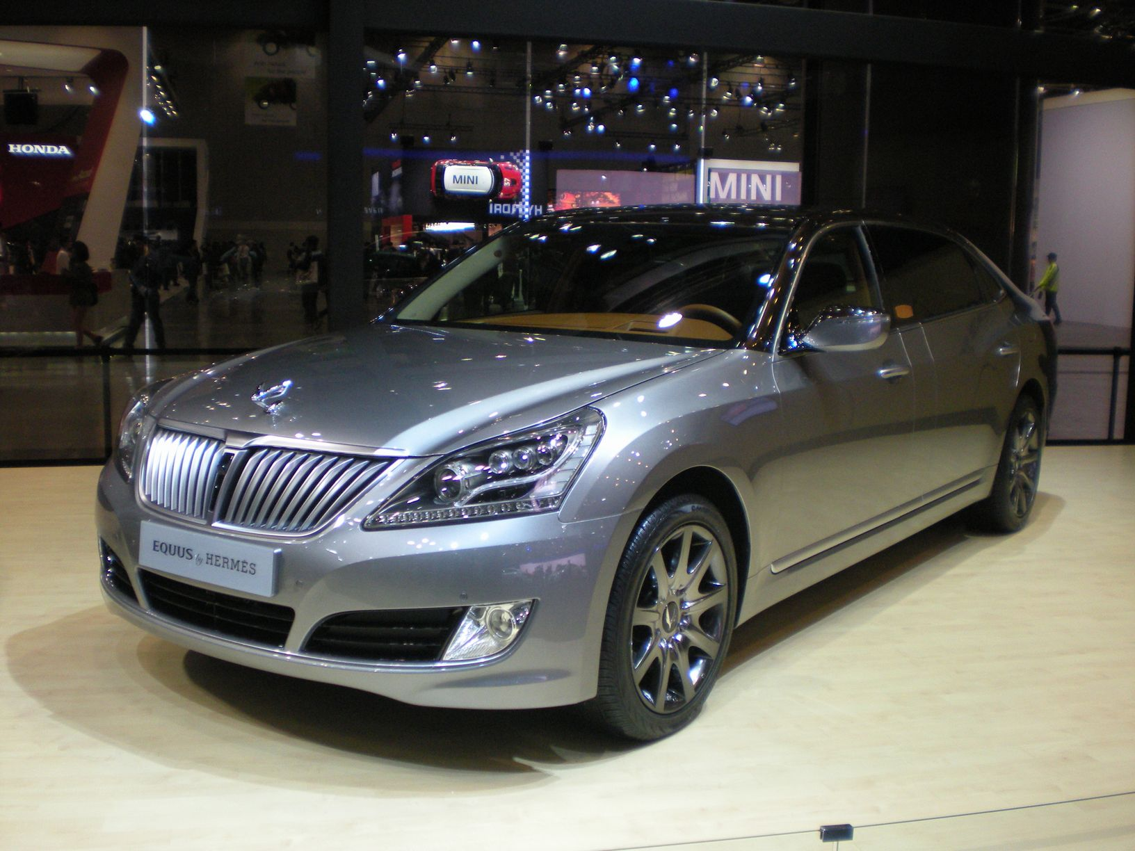 HYUNDAI EQUUS